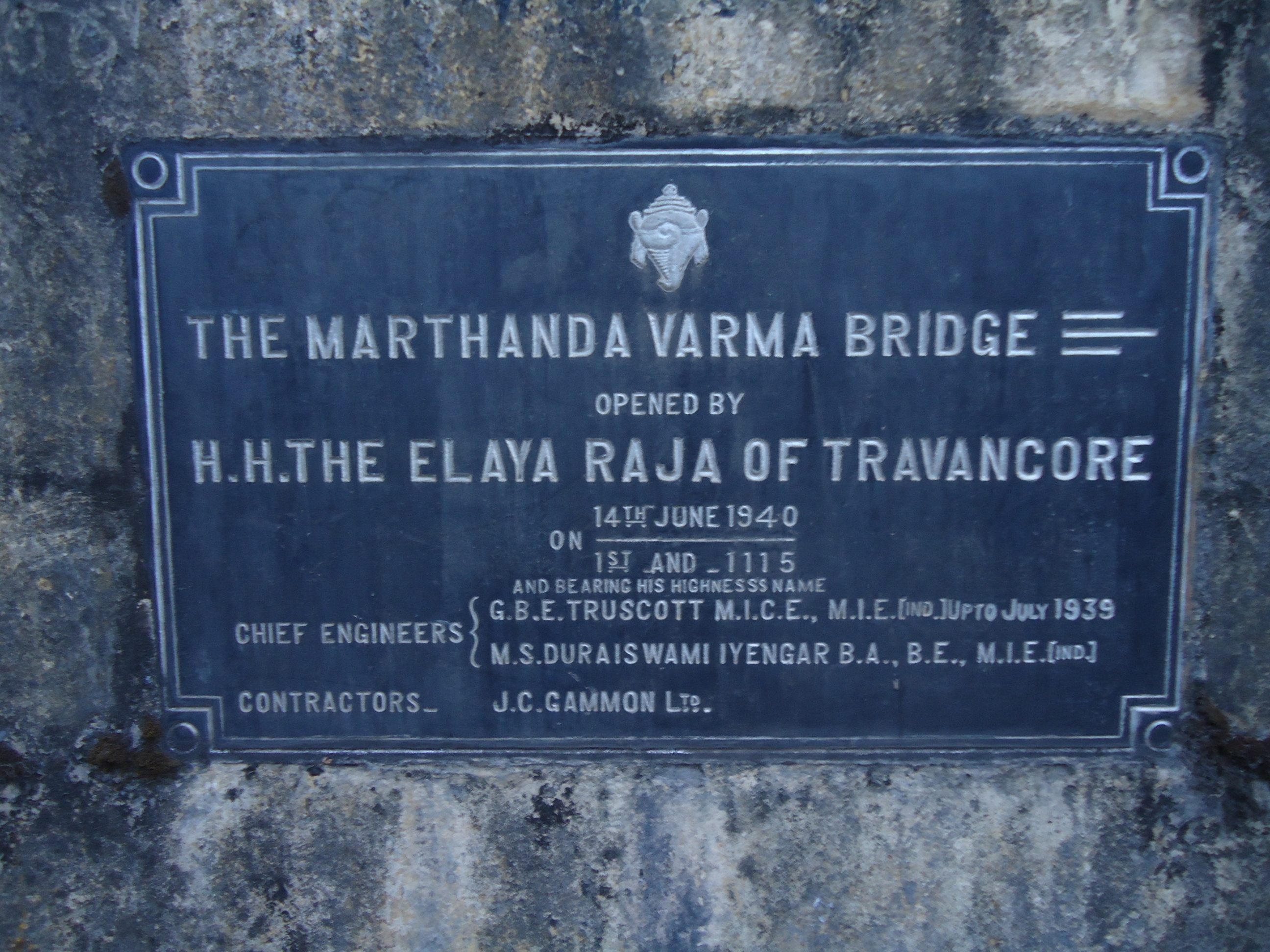 Marthandavarma Bridge Aluva Board